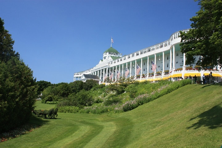 Grand Hotel, Grand Ave. Mackinac Island